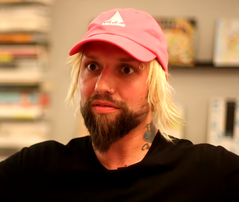 Akira the Don being interviewed.